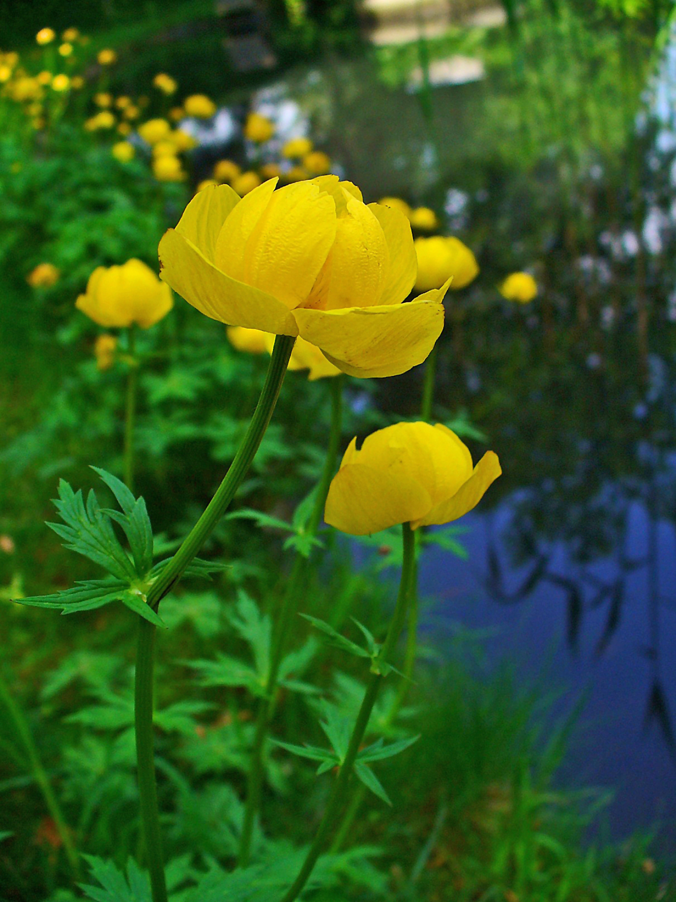 Trollius europaeus, Ranunculaceae, Globe-Flower, flower. Laupheim, Germany.